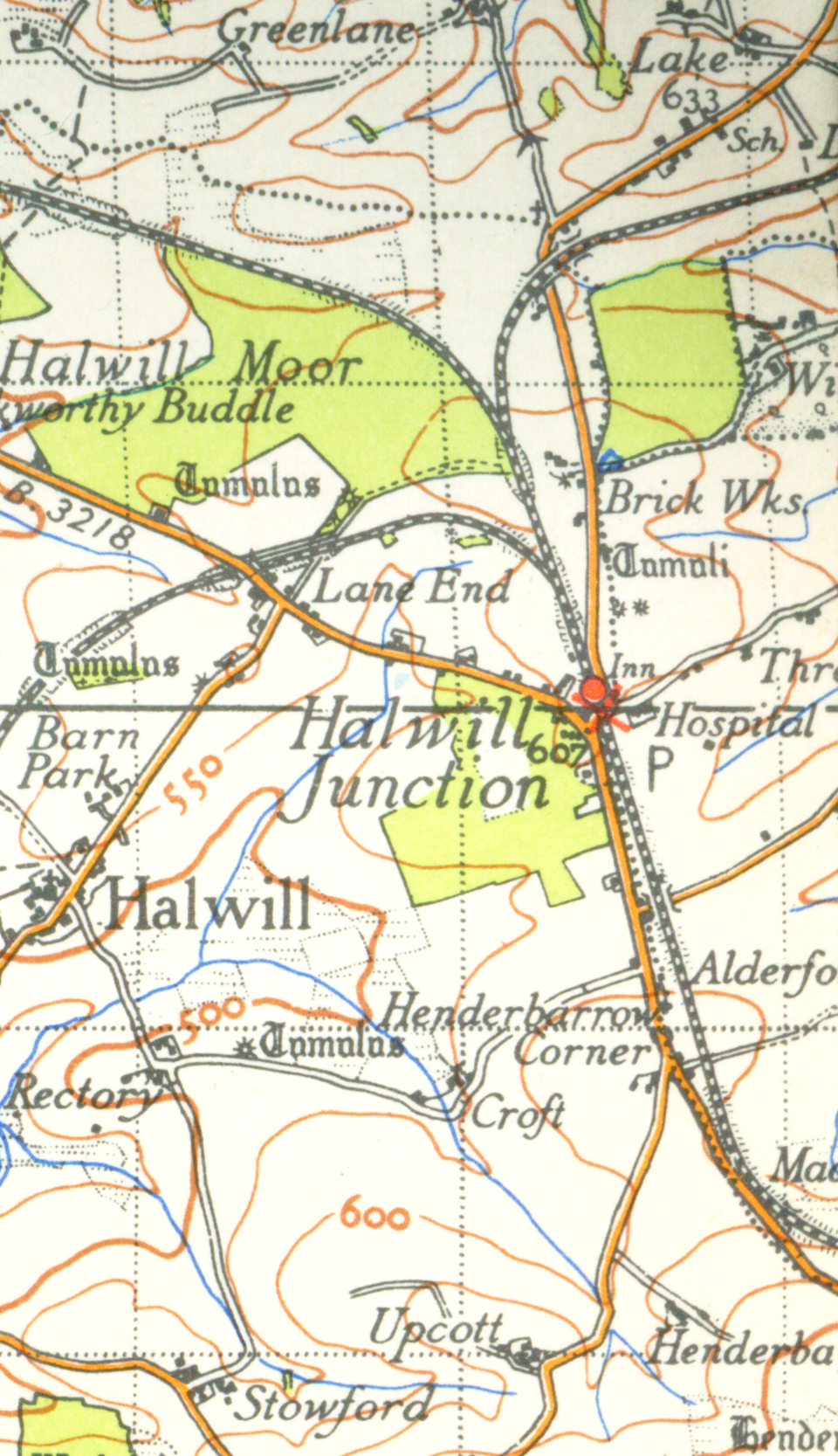 Map of Halwill Junction from 1946. Scale 1 inch to the mile 600DPI Sheet 175